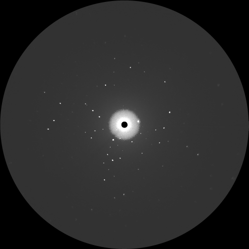 Scattering image of a crystal, monochromatic x-ray irradiation (Mo-K_alpha), detector: imaging plate (IPDS).